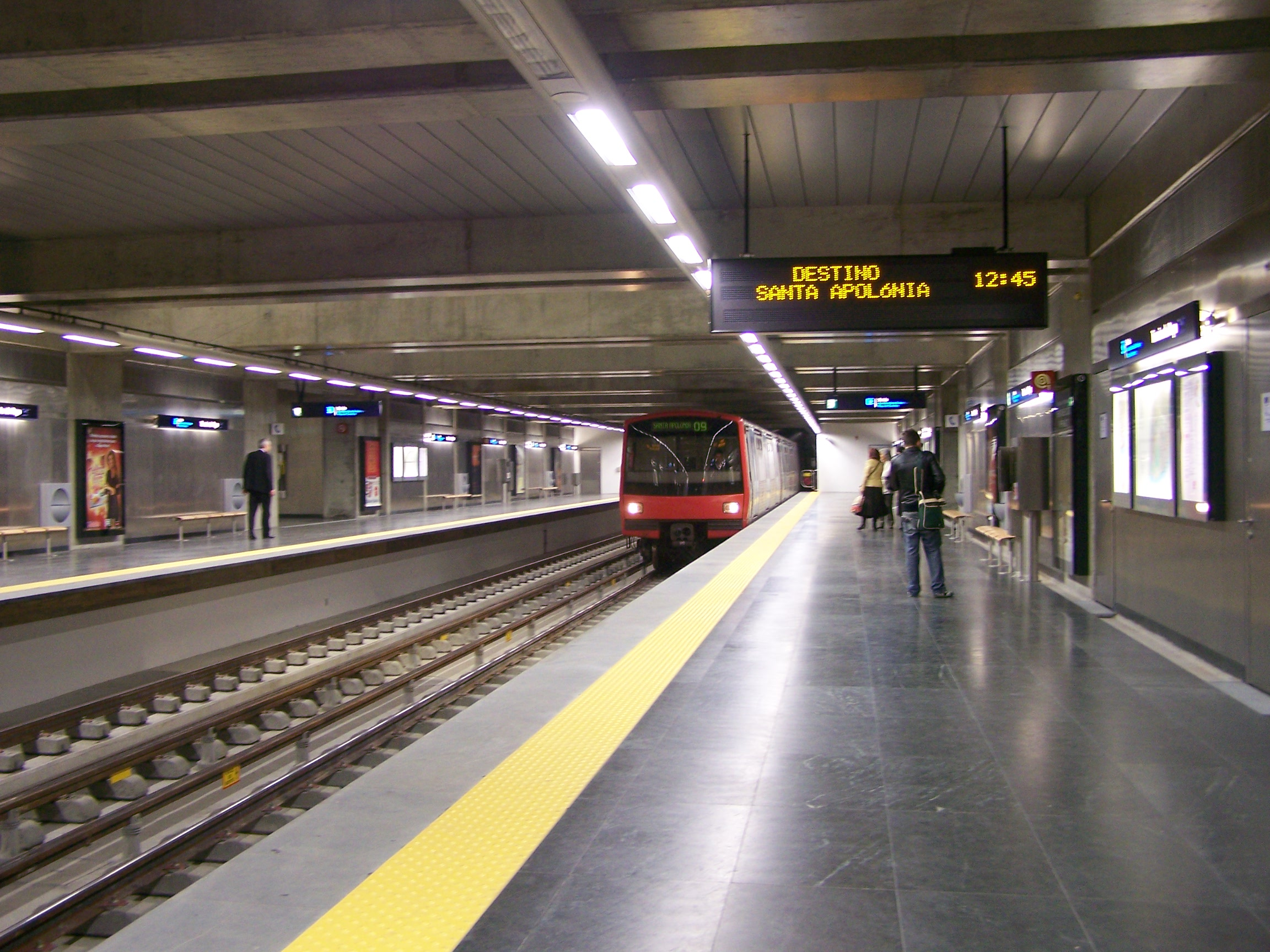 platforms of Lisbon's underground station Terreiro do Paço, Lisbon, Portugal